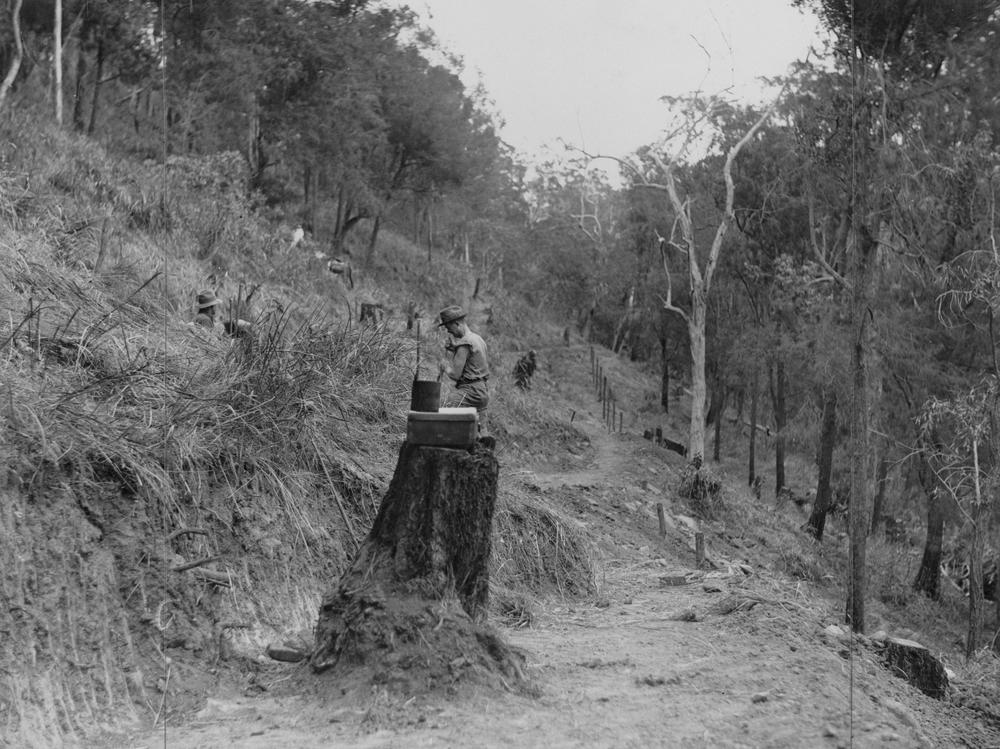 Construction workers on Mount Nebo Road, Queensland